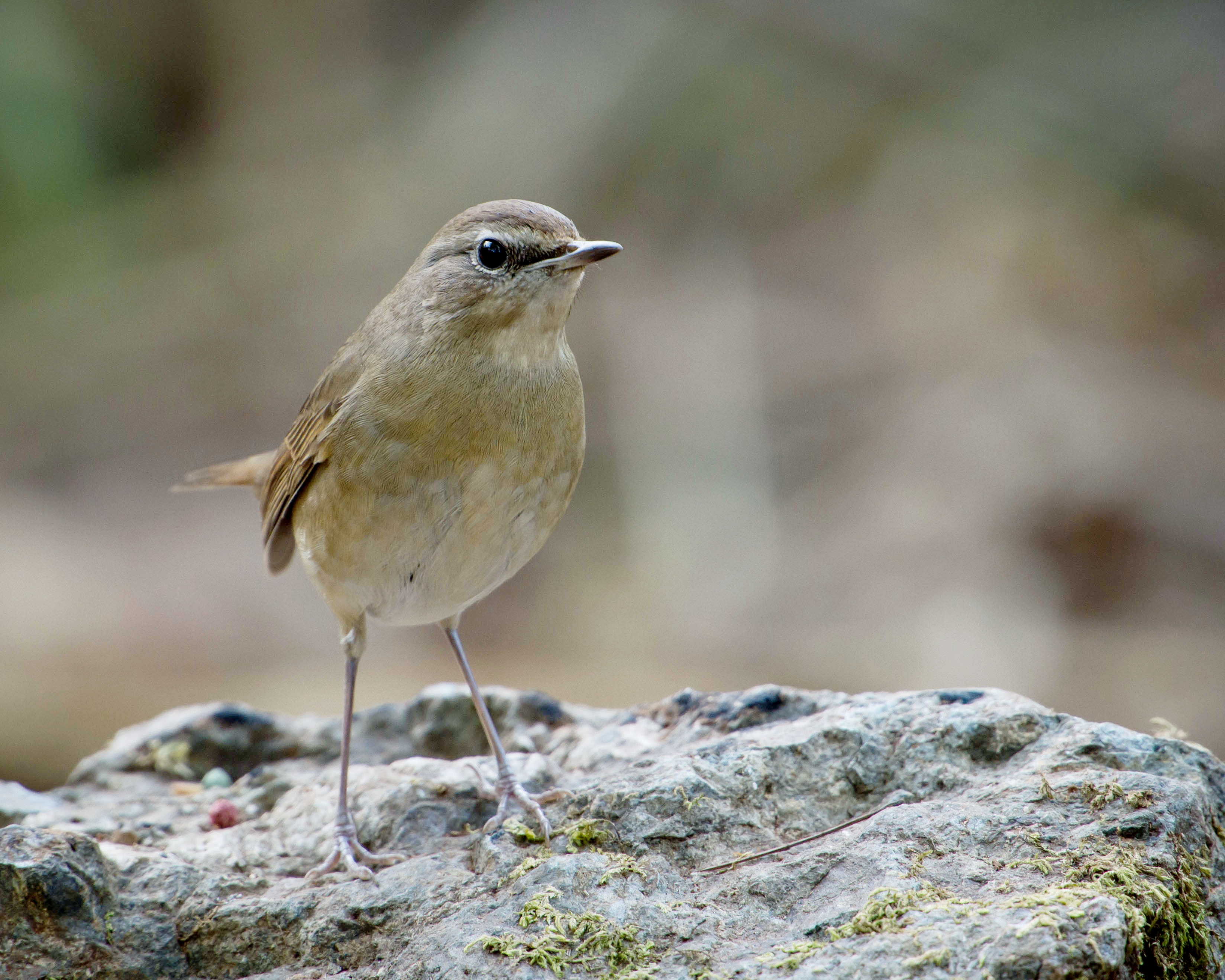 Female of Siberian Rubythroat (Luscinia calliope) at Mai Fang, Doi Lang, Chiang Mai Thailand